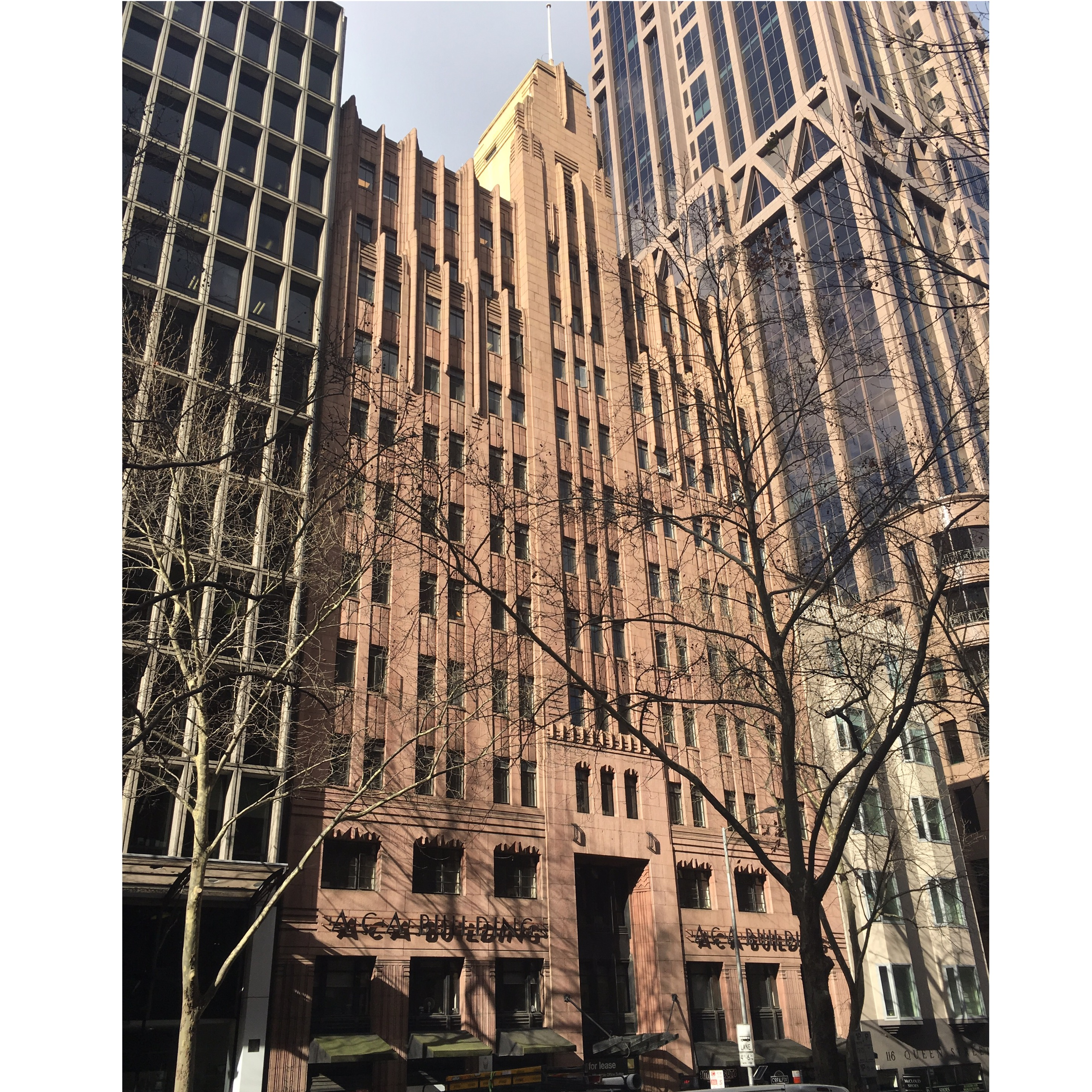 Art Deco office building at 112-126 Queen Street Melbourne